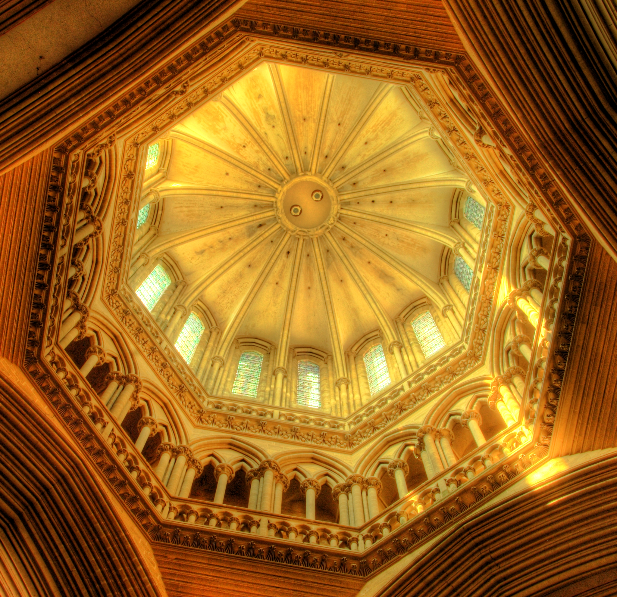 Sun beams in through the dome of the Coutances cathedral